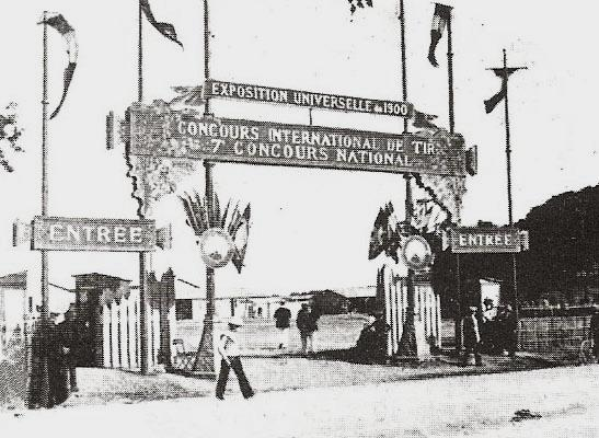 Shooting range Camp Satory at the 1900 Olympic Games photography, reproduction, no restrictions on use